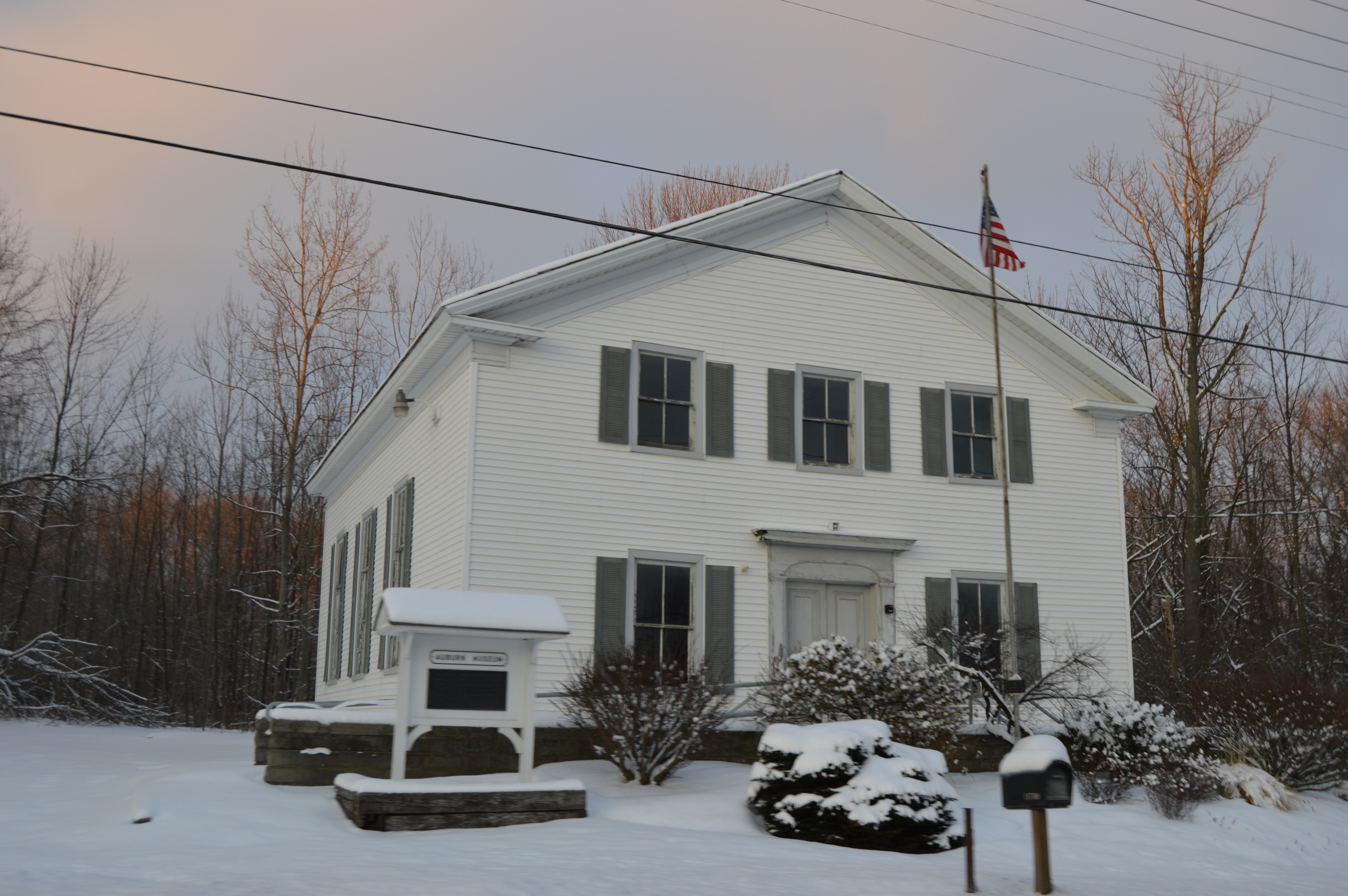 Front and western side of the former Free Will Baptist Church of Auburn, located at 11742 E. Washington Street at Auburn Corners in Auburn Township, Geauga County, Ohio, United States. Built in 1839, it is listed on the National Register of Historic Places.